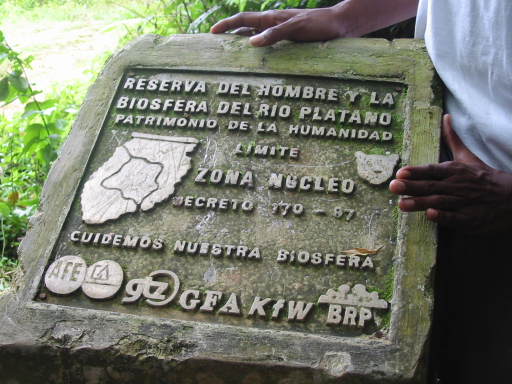 Río Plátano Biosphere Reserve (Honduras)